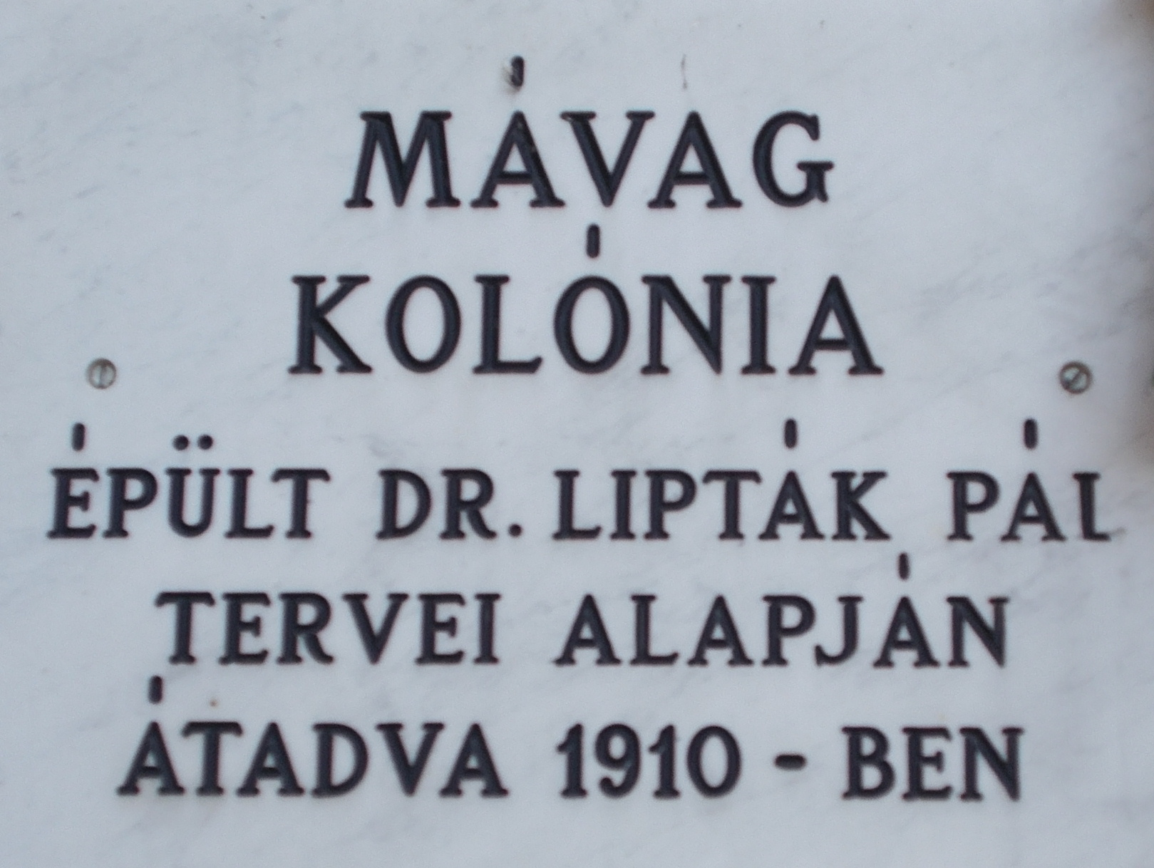 Plaque at the main gate of the Ganz-Mávag worker housing estate (locals called: 'Kolónia' means Colony). - Vajda Péter Street, Ganz neighborhood, Budapest District VIII, Budapest.